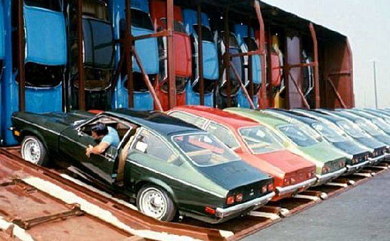 Vert A Pac train